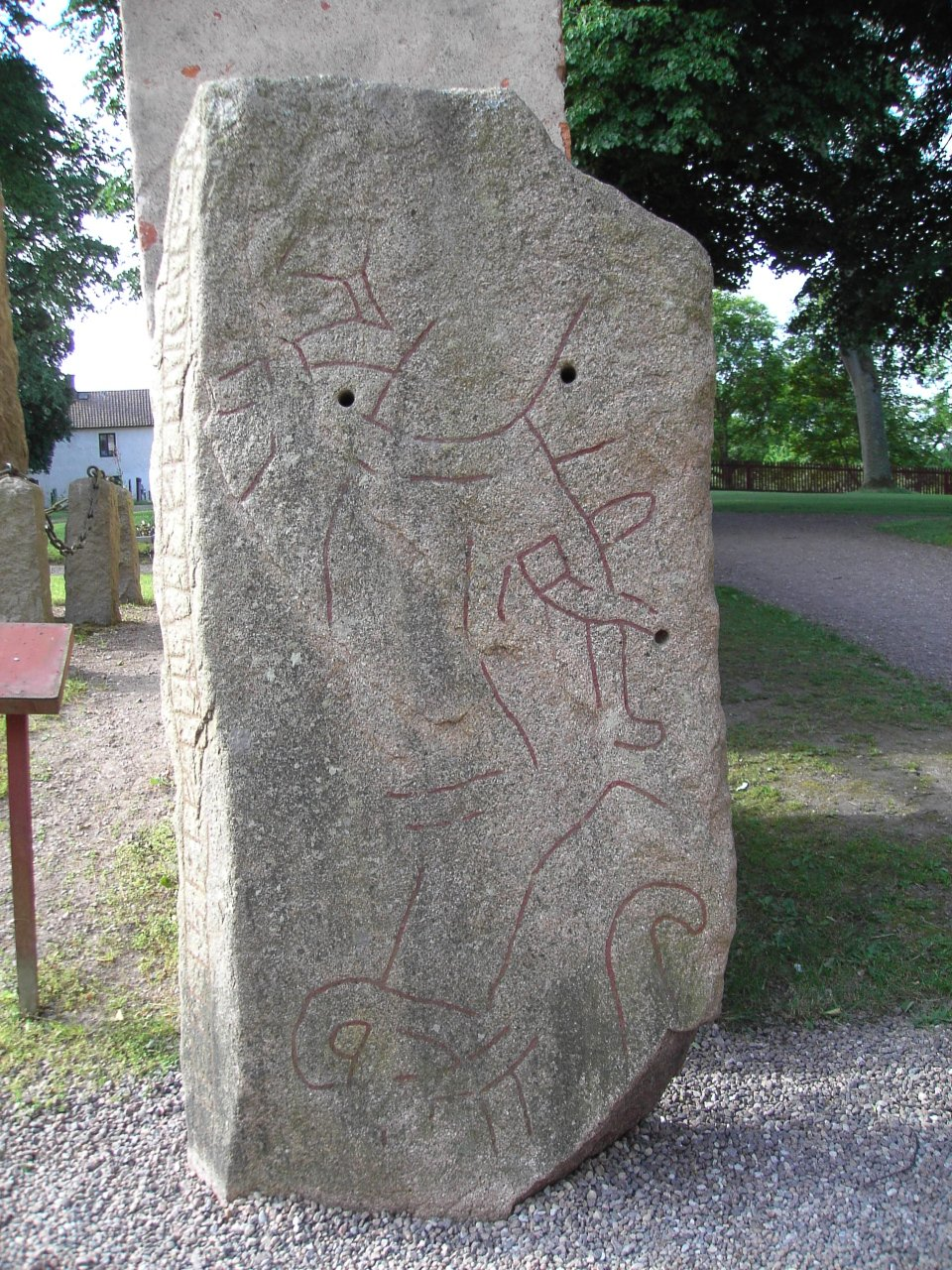 Rune stone #Ög179 outside Birgittakyrkan church in Vadstena, Östergötland, Sweden